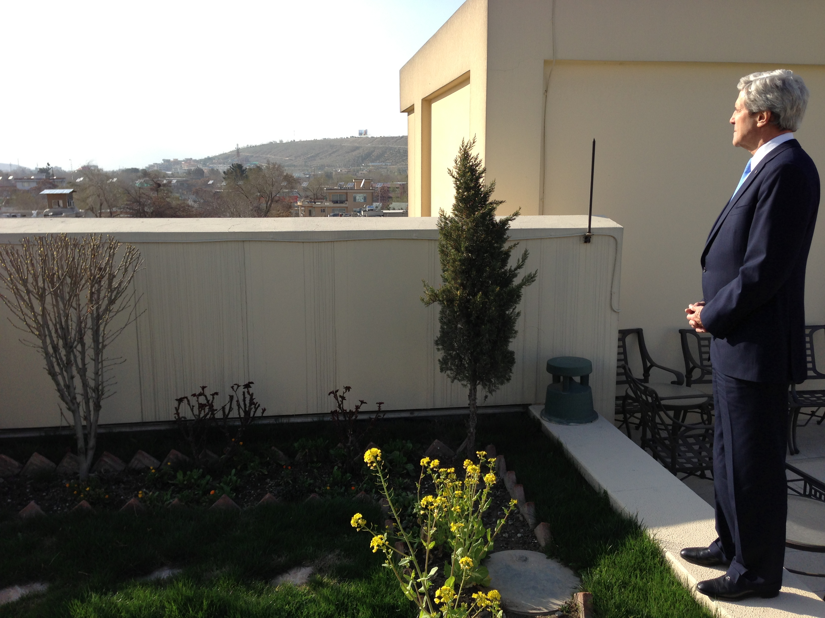 U.S. Secretary of State John Kerry takes a late afternoon stroll on the grounds of the U.S. Embassy in Kabul, Afghanistan on March 25, 2013 [State Department Photo/Public Domain]